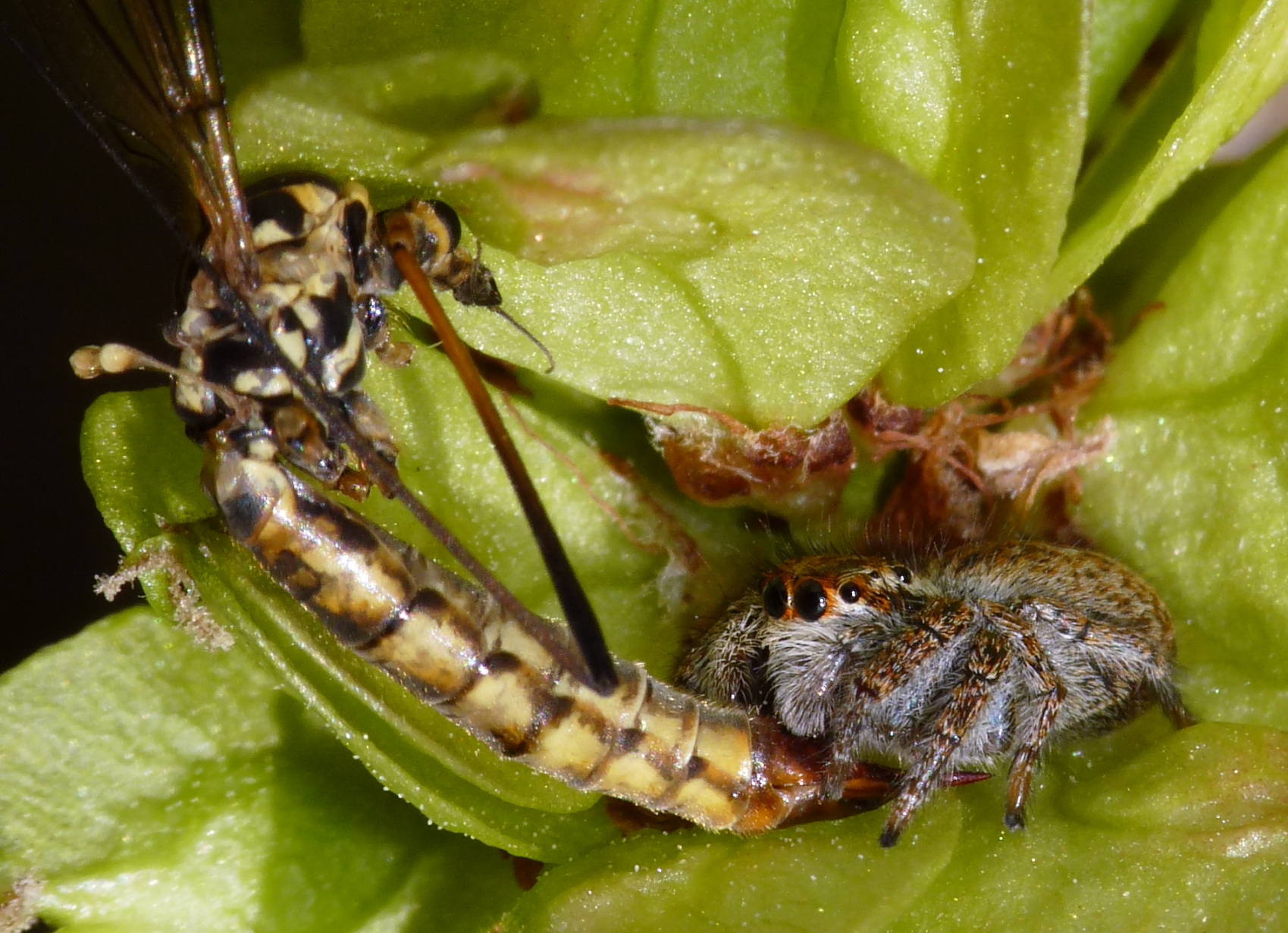 Carrhotus xanthogramma, female, with Tipulidae, near Livorno, Tuscany, Italy